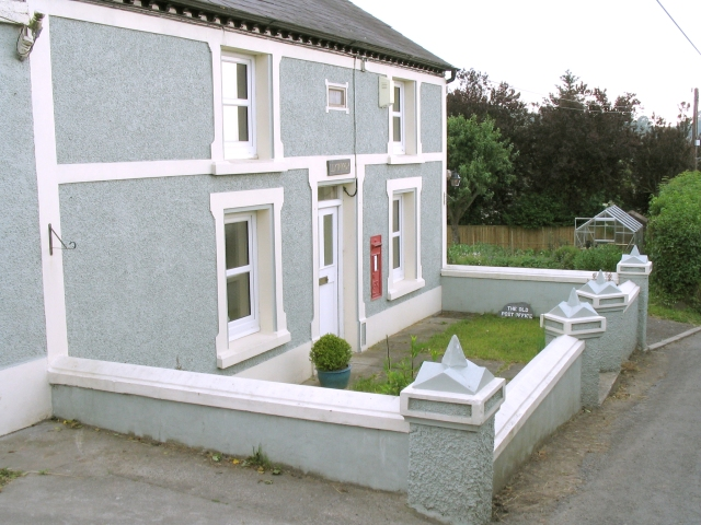 The old Post Office in Bethlehem, near Llangadog. In previous years it was possible to send your Christmas mail here and have it forwarded to its final destination franked with a genuine Royal Mail postmark of "Bethlehem" - since that really is the name of this place.